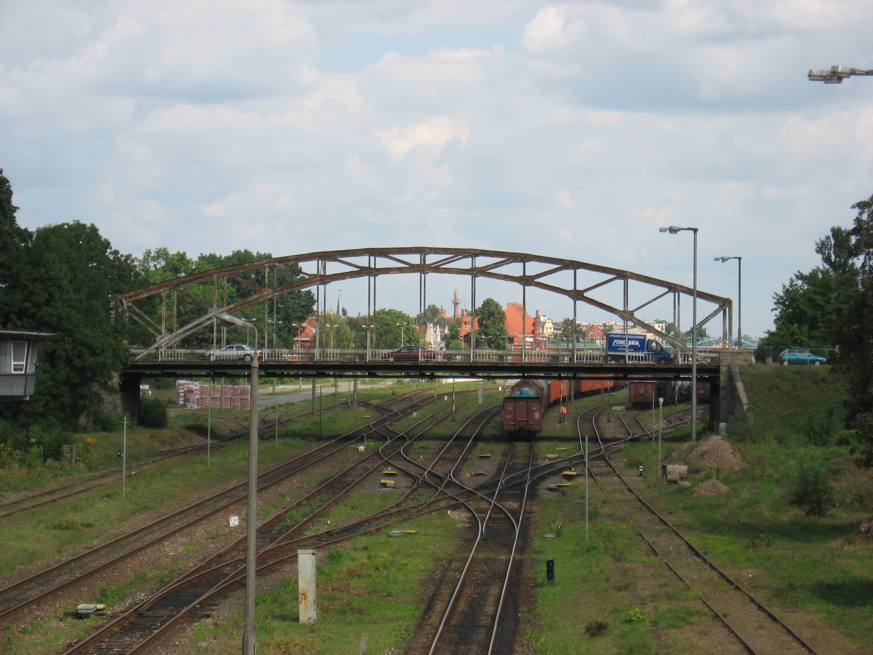 Kwidzyn, view of overpass from footbridge